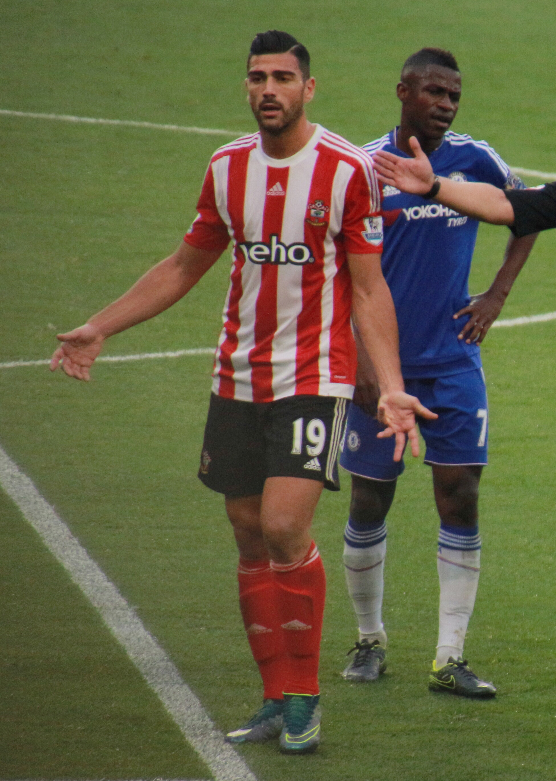 Chelsea 1 Southampton 3, 2015, Graziano Pellè.